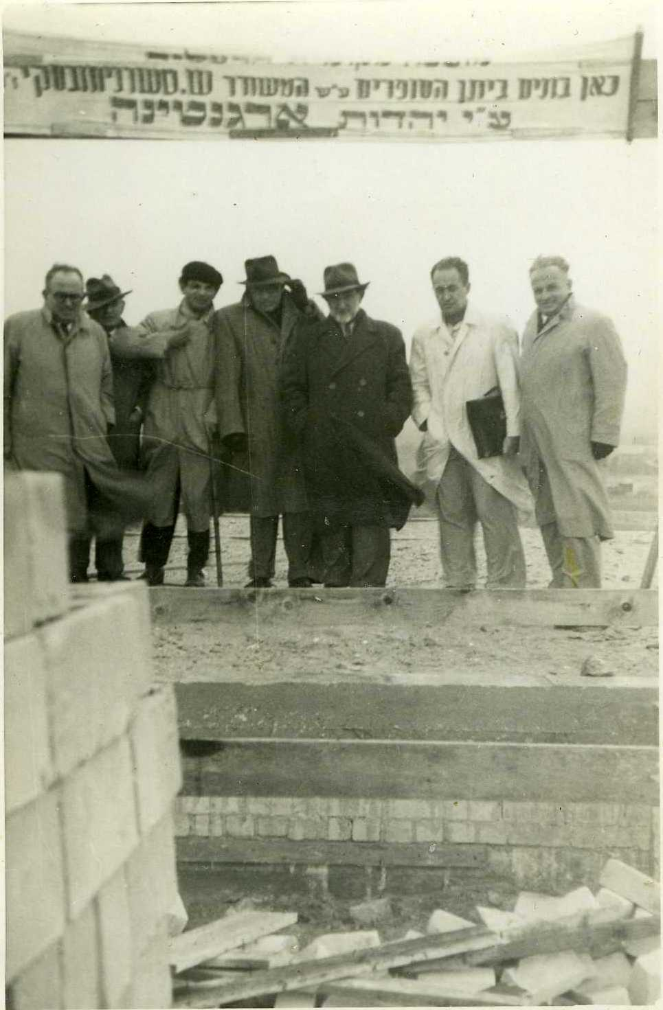 Argentines donors visit in the Authors Hill